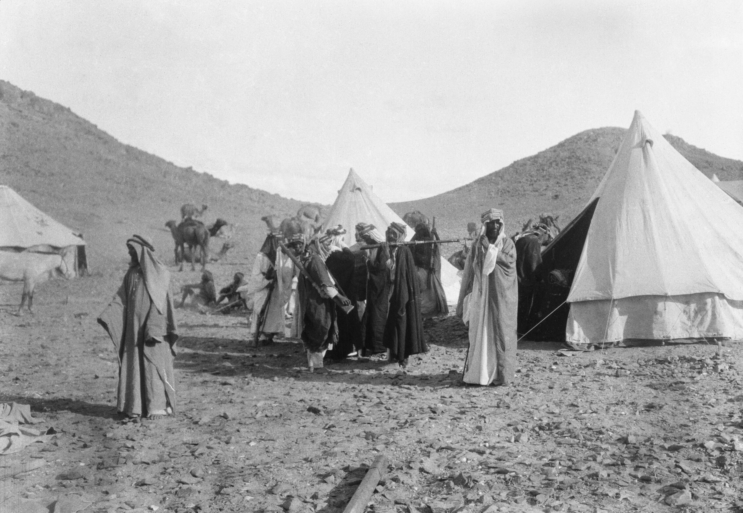 T E Lawrence and the Arab Revolt 1916 - 1918 Outside the Emir Feisal bin Husain al-Hashimi's tent at Nakhl Mubarak landing ground, near Yenbo.